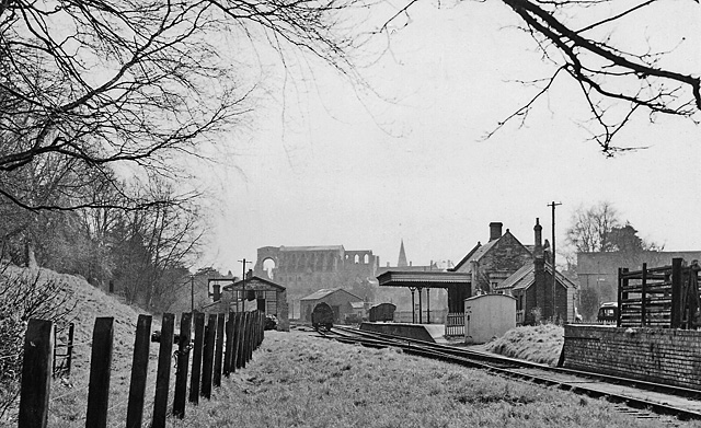 Malmesbury Station (remains). View southwards to the terminus and the Abbey beyond. This was the terminus of a Great Western branch from Little Somerford (formerly from Dauntsey) on the main lines west of Swindon. Passenger traffic had ceased on 10/9/51, but goods traffic was evidently still flourishing and continued until 12/11/62. The building at the left at the end of the fence is what was the station's engine shed and is still in use as a fast-fit tyre depot.